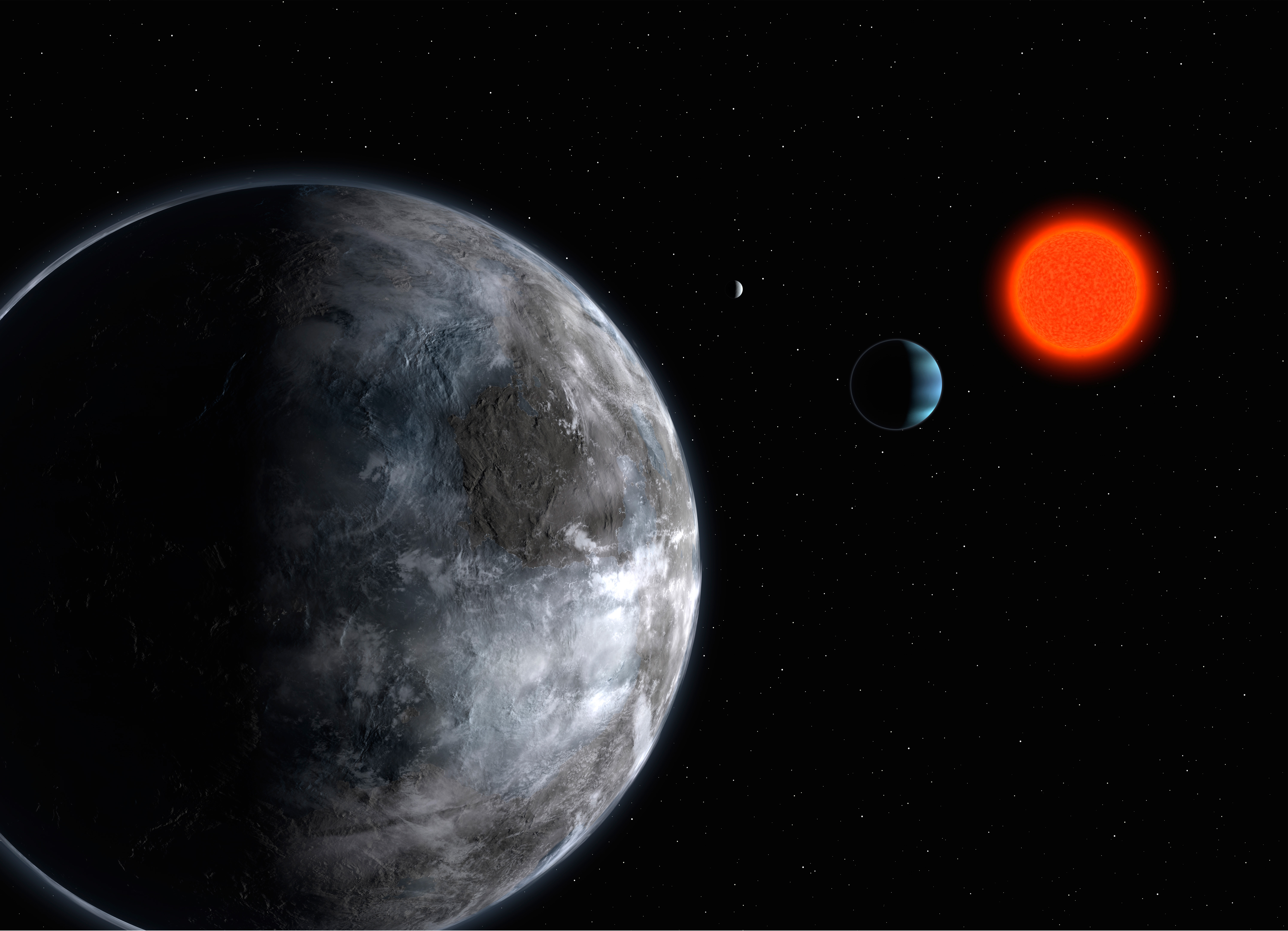 Artist's impression of the planetary system around the red dwarf Gliese 581. Using the instrument HARPS on the ESO 3.6-m telescope, astronomers have uncovered 3 planets, all of relative low-mass: 5, 8 and 15 Earth masses. The five Earth-mass planet (seen in foreground - Gliese 581 c) makes a full orbit around the star in 13 days, the other two in 5 (the blue, Neptunian-like planet - Gliese 581 b) and 84 days (the most remote one, Gliese 581 d).